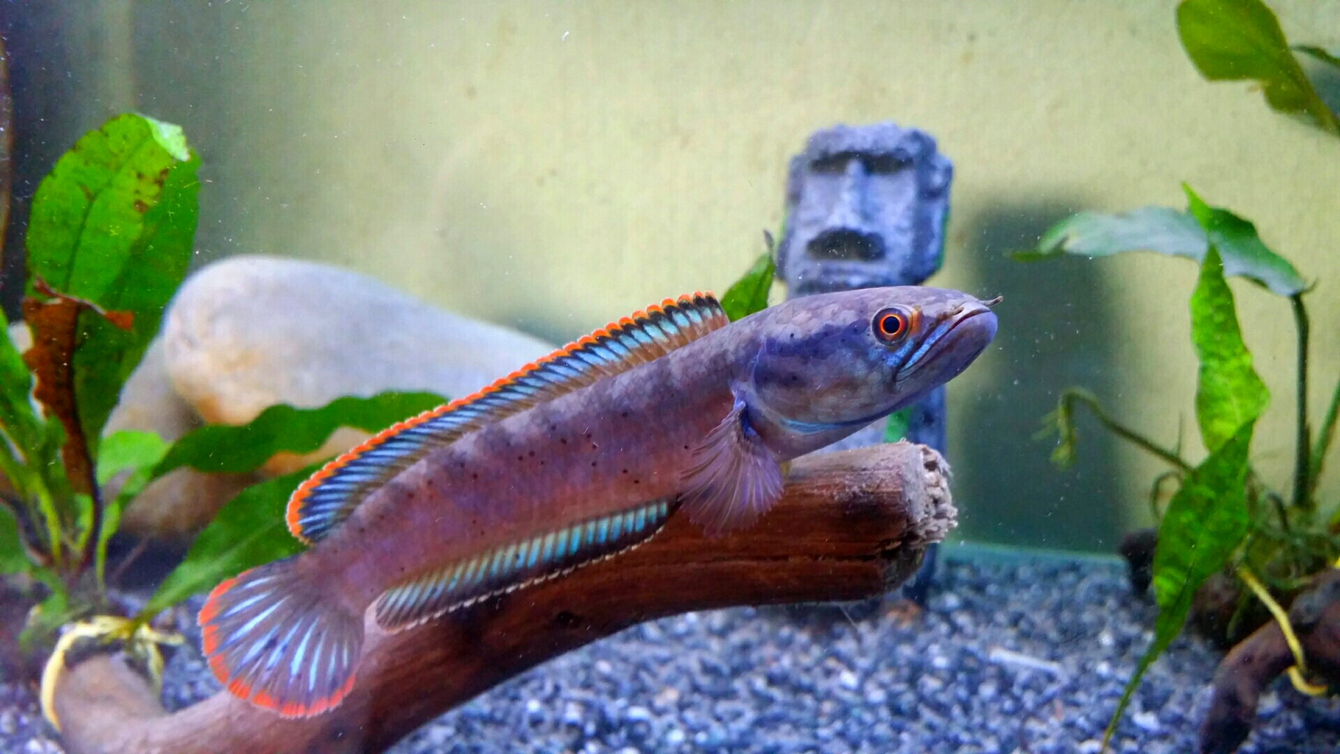 12 inches Channa sp. Redfin. A newly described dwarf Snakehead.